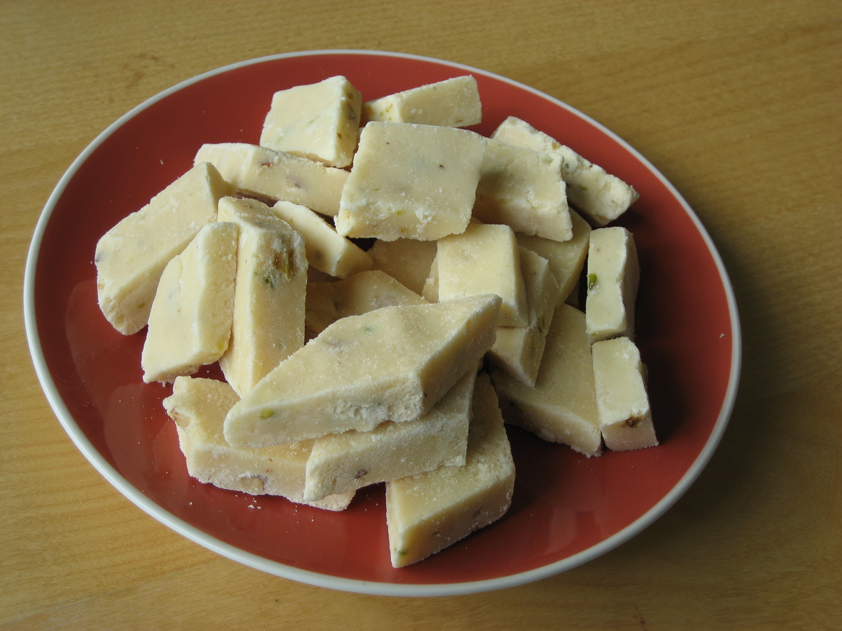 Shekarpireh, Persian candy from Afghanistan.